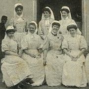 Postcard photograph of nurses at the SSBM (Société de Secours des Blessés Militaires), Casablanca. Now cropped.